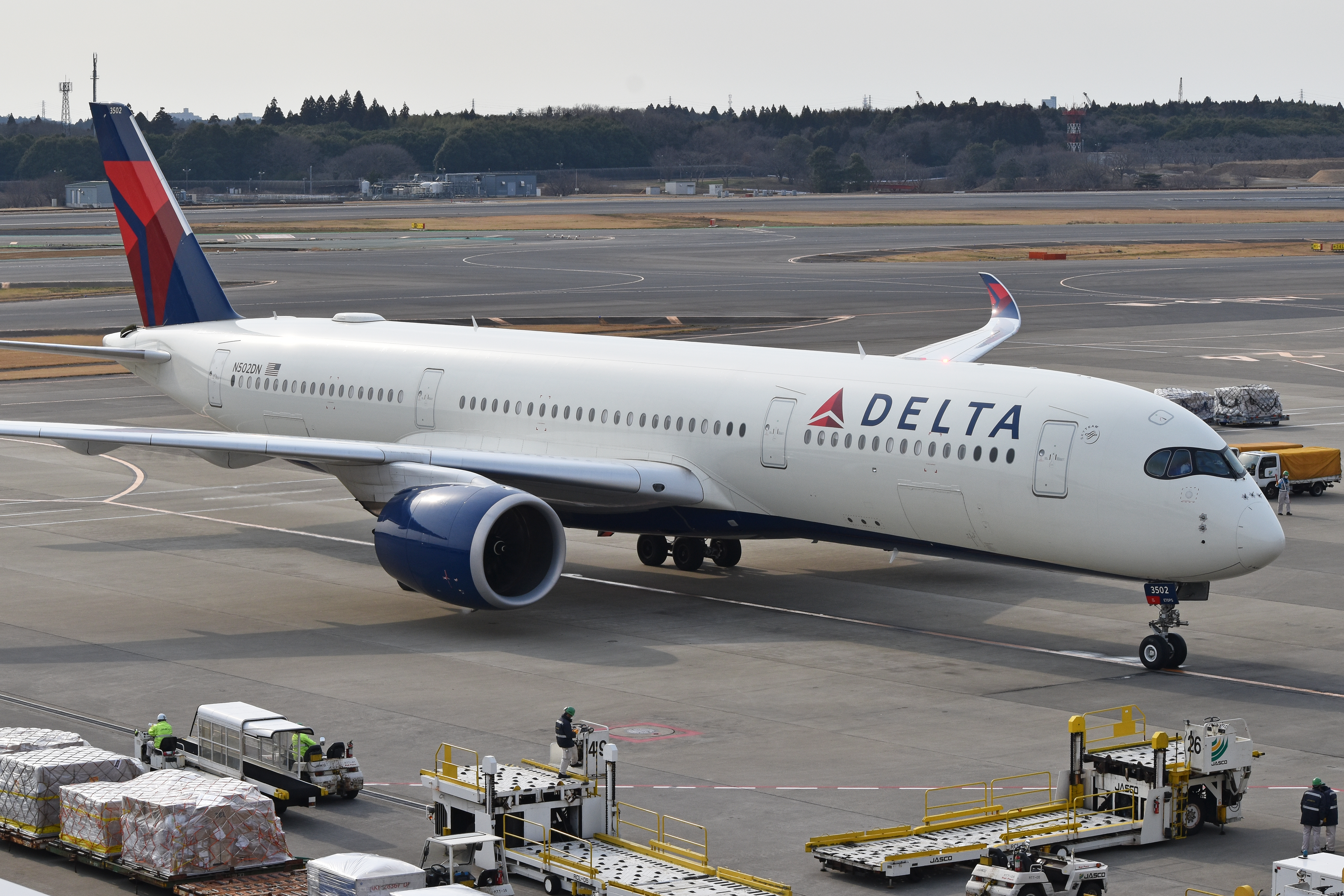 c/n 0135 Built 2017 Taxiing in after arriving on flight DL167 / DAL167 from Seattle Seen from Terminal 1 viewing terrace. Narita International Airport Tokyo, Japan 16th March 2019